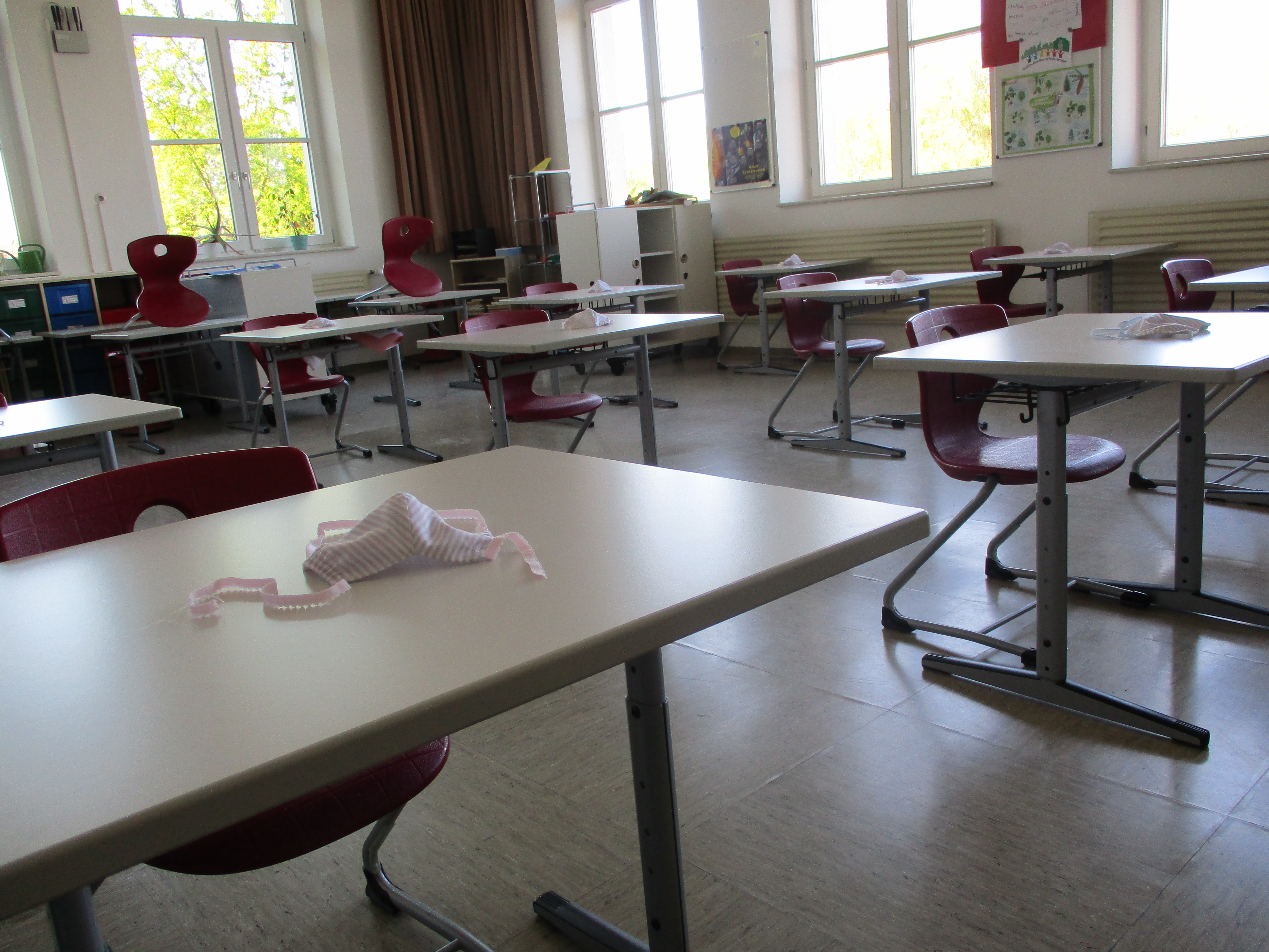 Classroom in a german elementary school, prepared for re-opening after Covid19-shutdown; tables with at least 1,50m distance